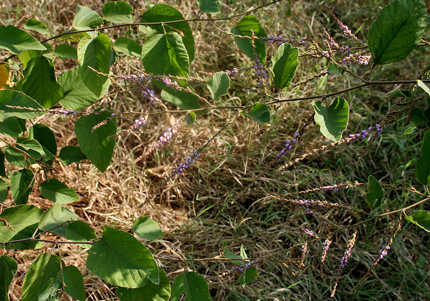 Desmodium velutinum (Willd.) DC. (Anarthrosyne cordata Klotzsch; Desmodium lasiocarpum (P.Beauv.)DC.; Desmodium latifolium (Roxb.)DC.; Desmodium plukenetii (Wight & Arn.)Merr.; Hedysarum deltoides Poir.; Hedysarum deltoideum Schum. & Thonn.; Hedysarum lasiocarpum P.Beauv.; Hedysarum latifolium Roxb.; Hedysarum velutinum Willd.; Pseudarthria cordata (Klotzsch)C.Mueller)- - in Herbal Garden, in Rangareddy district of Andhra Pradesh, India.